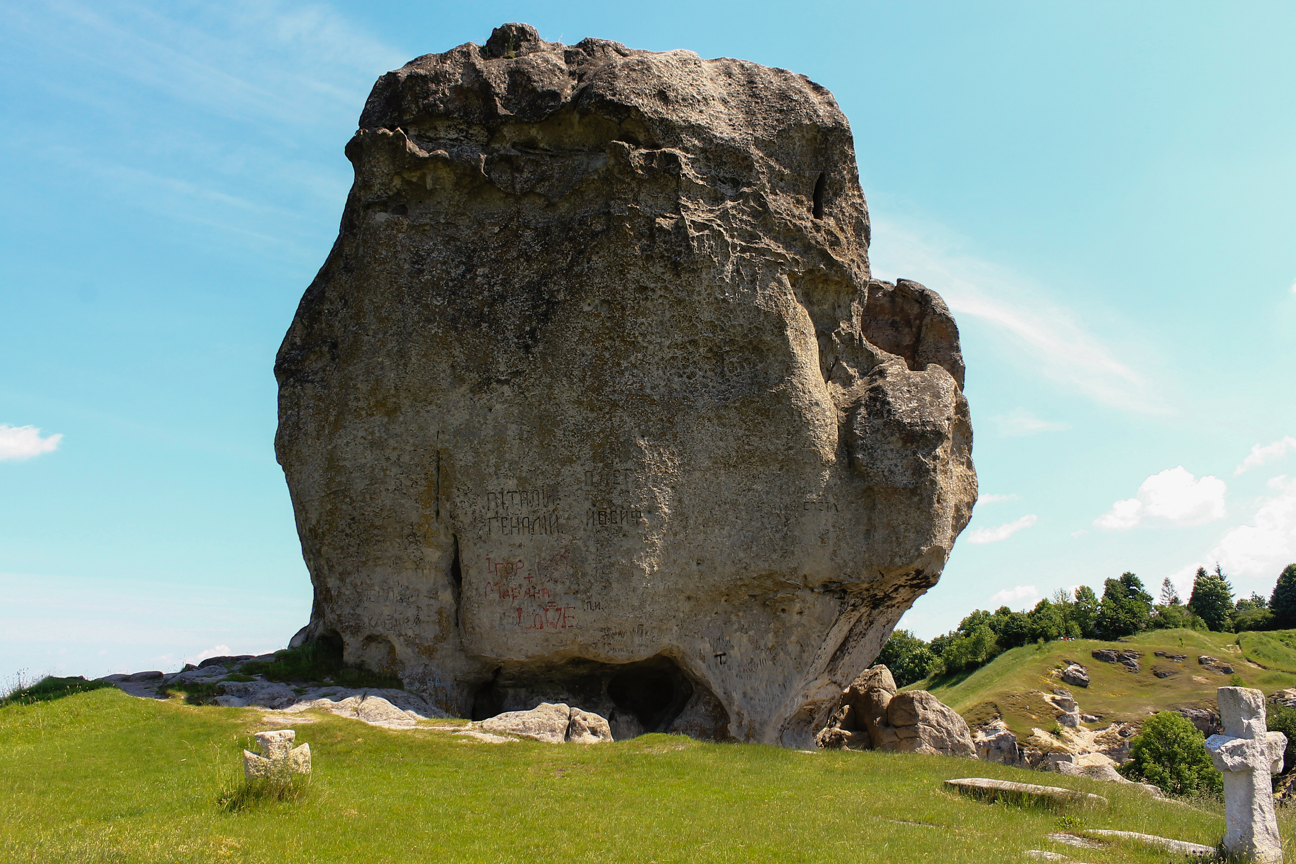 Pidkamin: eponymous "Devil's Rock".